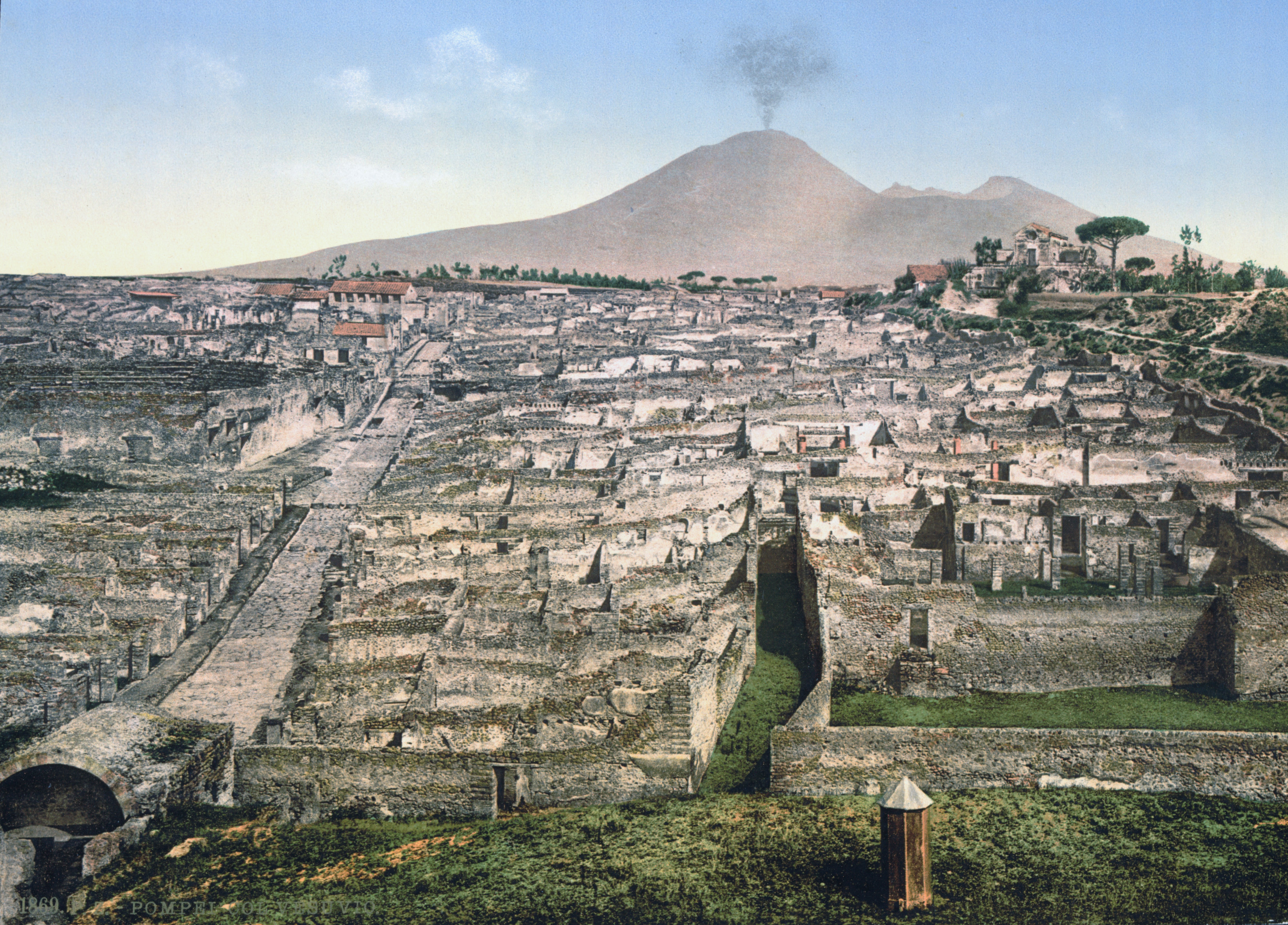 Pompeii - General view and Vesuvius. Print no. "1869"